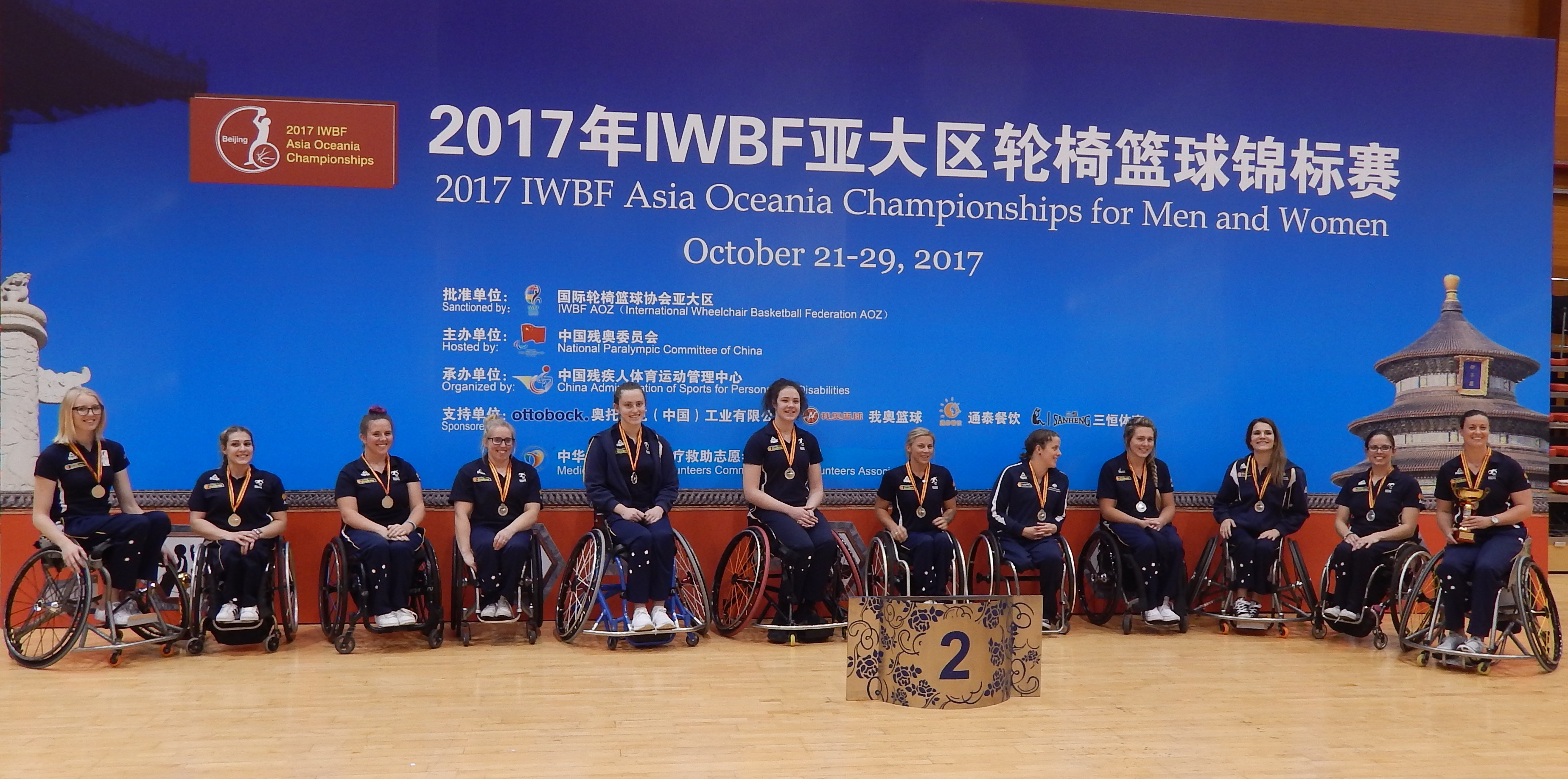 2017 IWBF Asia-Oceania Championships - Women's Silver Medal team - Australian Gliders. Left to right: Amber Merritt, Sarah Vinci, Hannah Dodd, Shelley Chaplin, Georgia Munro-Cook, Annabelle Lindsay, Shelley Cronau, Cobi Crispin, Georgia Inglis, Ella Sabljak, Clare Nott, Leanne del Toso.